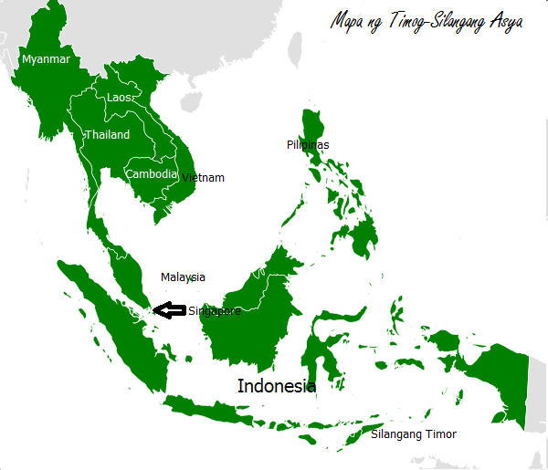 Map in Southeast Asia in Tagalog